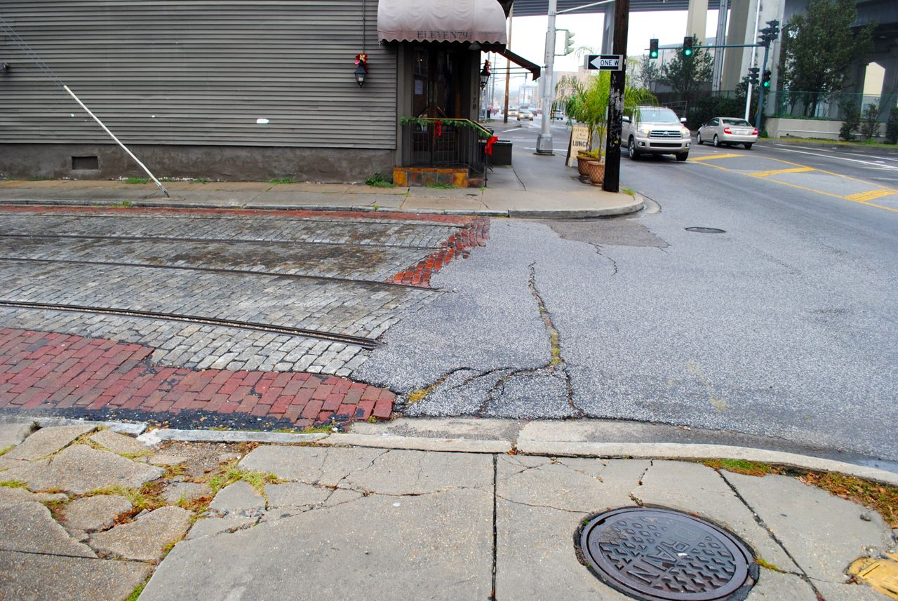 New Orleans, photo taken in 2009. Old tracks remain in street of long discontinued streetcar line. Erato Street at corner of Annunciation, looking downriver. Entrance to restaurant "Eleven 79" seen on corner.